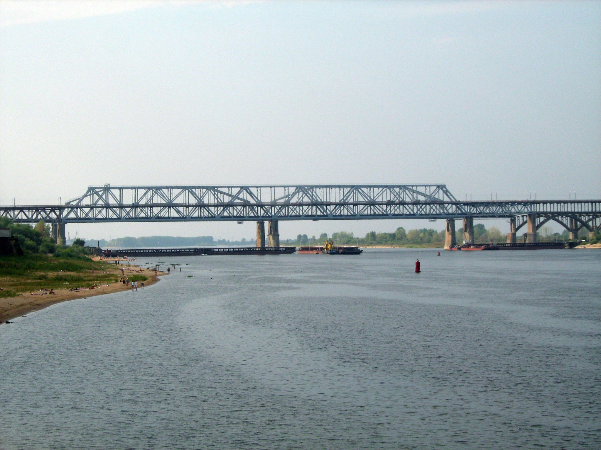 The Volga Bridge in Nizhny Novgorod. Note the tugboat that is about to connect the sections of the floating bridge below the main (permanent) bridge.